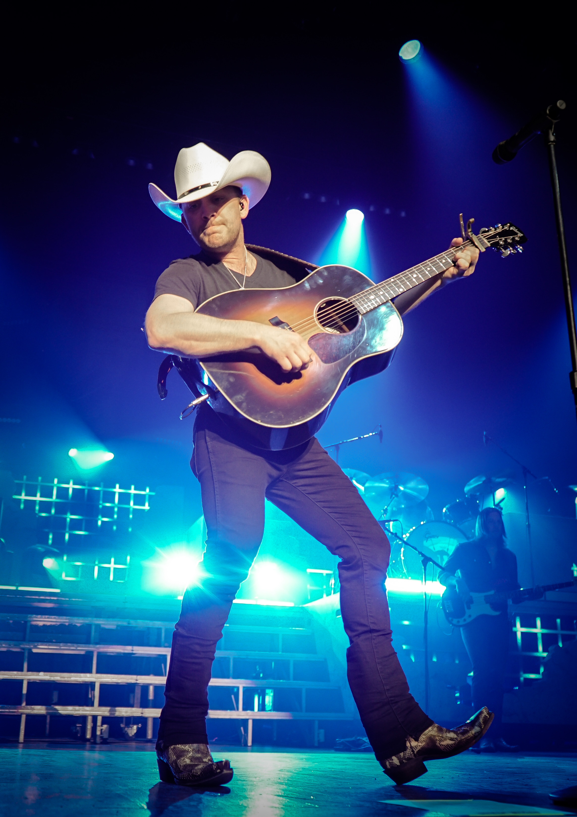 Justin Moore Live